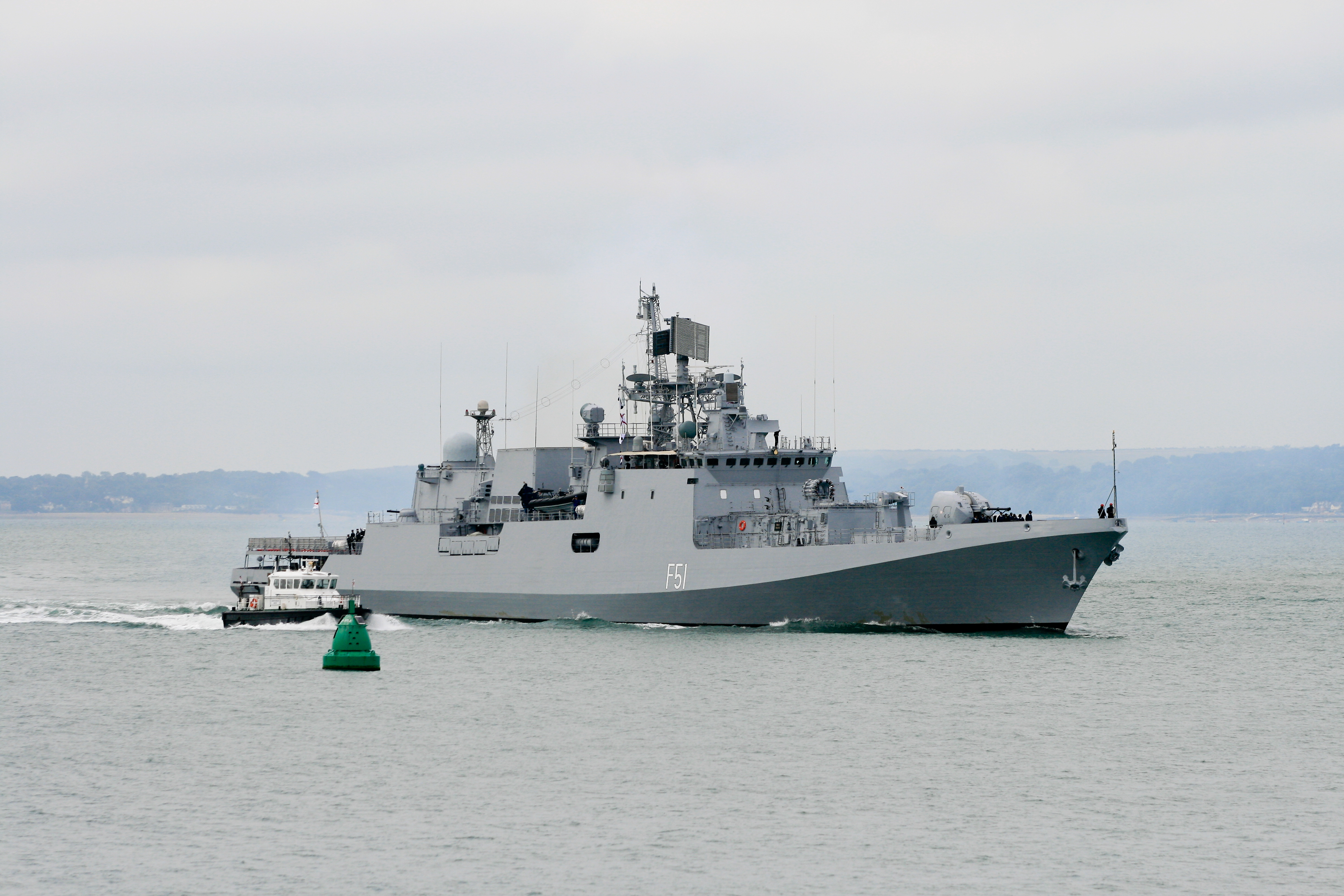 Newly constructed Indian Navy Talwar class (modified Russian Krivak III class) frigate INS Trikand (F51) rounding the Castle buoy off Southsea Castle while entering Portsmouth Naval Base, UK, 12 July 2013, on an Indian-bound delivery voyage from the Baltiysky Zavod shipyard in St Petersburg, Russia. INS Trikand) is the last frigate of her class ordered from a Russian shipyard. The successor frigate class to the Talwars is the Shivalik class, and these are being built at Mazagon Dock. Mumbai in India. Wikipedia editors are reminded that the copyright remains with the photographer, and that the terms of the Creative Commons (CC), Attribution (BY), Share Alike (SA) CC-BY-SA-3.0 that allow editors to reuse this image apply to Wikipedia editors also, as they do to other re-users of this image. Breaches of the licence terms are not only unlawful, but are also antisocial, in that breaches discourage photographers from making their images freely available to everyone without payment. Wikipedia re-users are also reminded of the license terms that derivatives of this image should not imply that the adaptation is endorsed or approved by the author or copyright holder. Neither should derivatives be presented as the creation of the author or copyright holder, while clearly stating that the adaptation is a derivative of the original. Attribution online should be in this format Brian Burnell. On the printed page, a simpler form is acceptable - example: "Image: Brian Burnell".